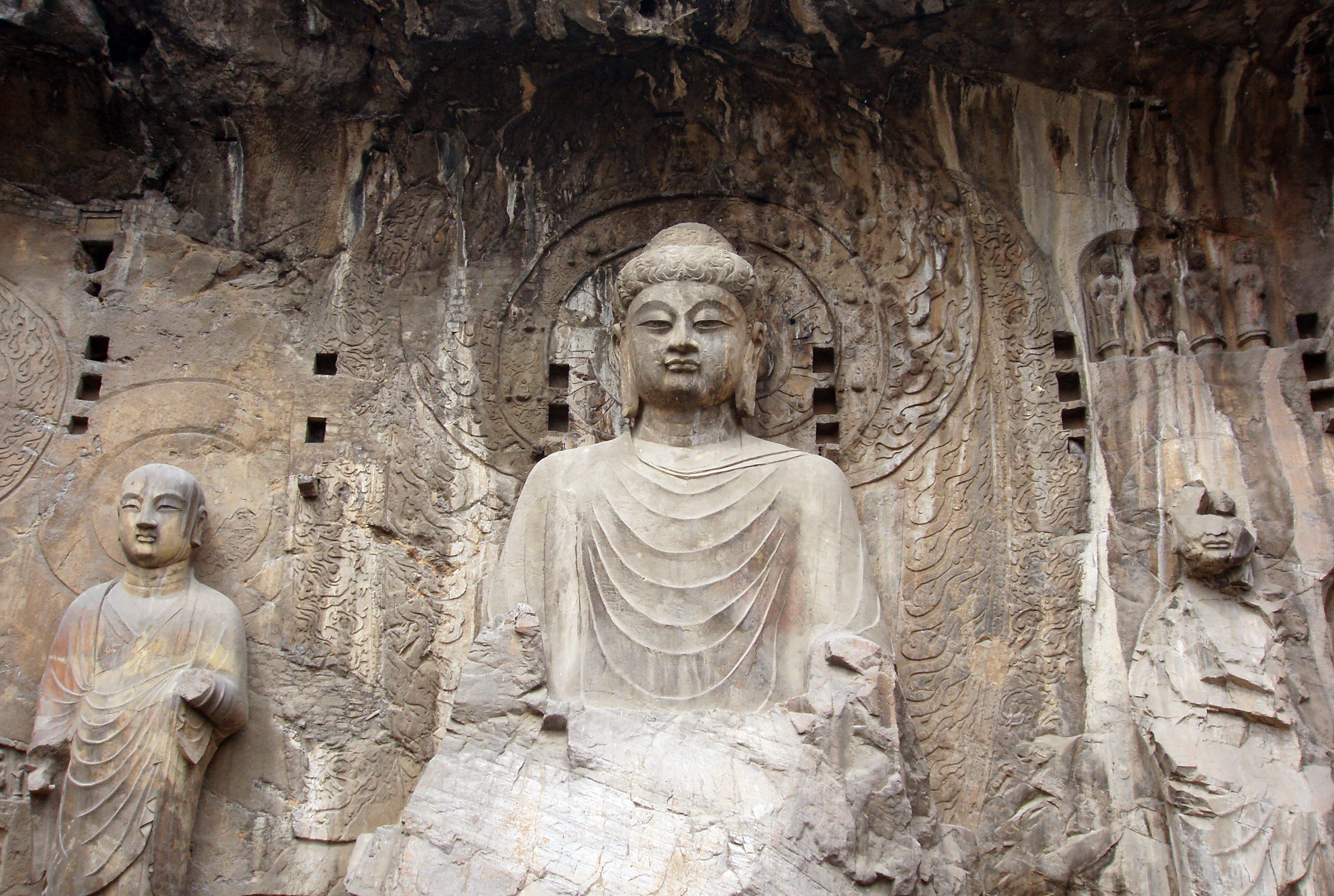 Buddhist statues of Dragon Gate Cave in Luoyang,China